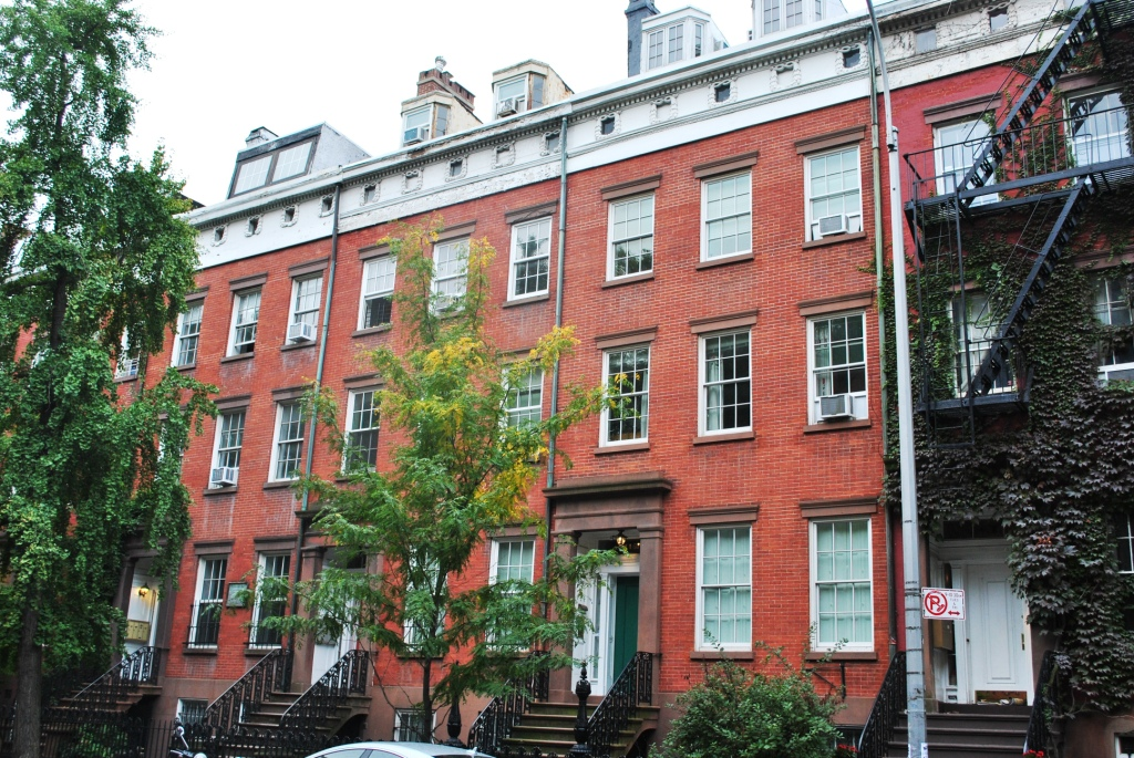 Chelsea, Manhattan